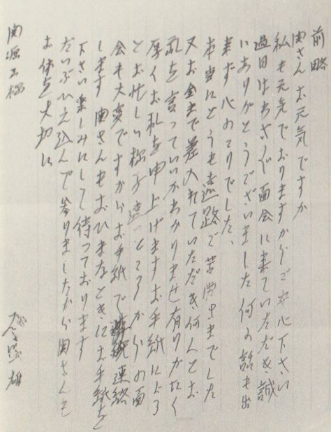 The letter to Genzo Seki from Kazuo Ishikawa, 1963.